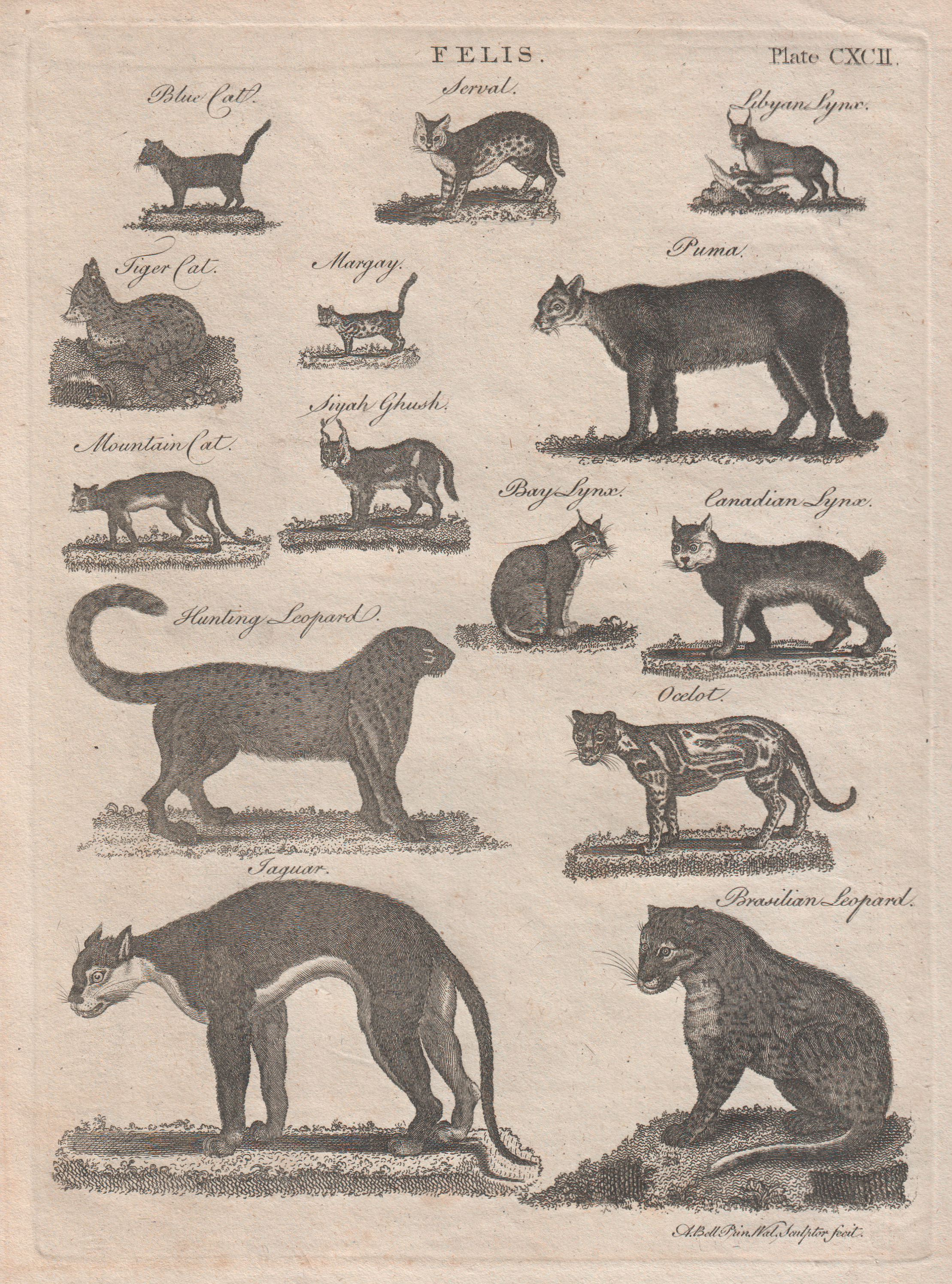 Blue Cat; Serval; Libyan Lynx; Tiger Cat; Margay; Puma; Moutain Cat; Sijah Ghush; Bay Lynx, Canadian Lynx; Hunting Leopard; Ocelot; Jaguar; Brasilian Leopard. A. Bell Prin. Val. Sculptor fecit.